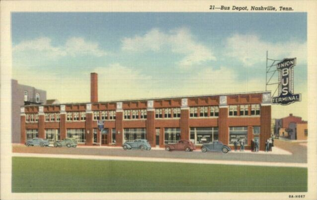 A color postcard image of a brick building with a sign "Union Bus Terminal" and captioned as "Bus Depot, Nashville, Tenn." Likely Between 1930 and 1950.